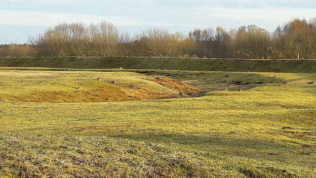 The Devil's Quoits ditch and its inhabitants